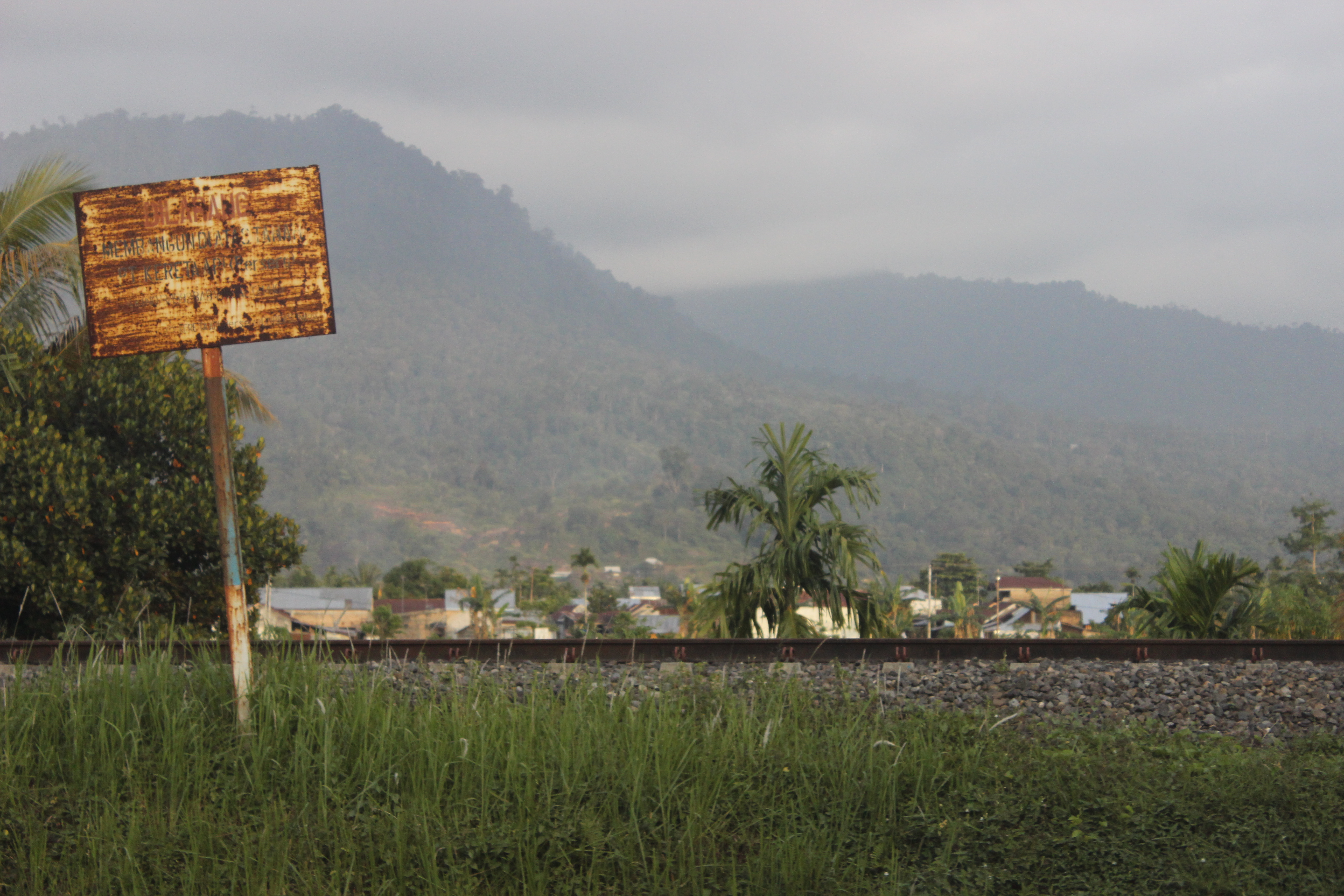 An abandoned railway line crossing through rice fields in Padang Pariaman regency, West Sumatra. This line crosses from Kayu Tanam to Padang Panjang.